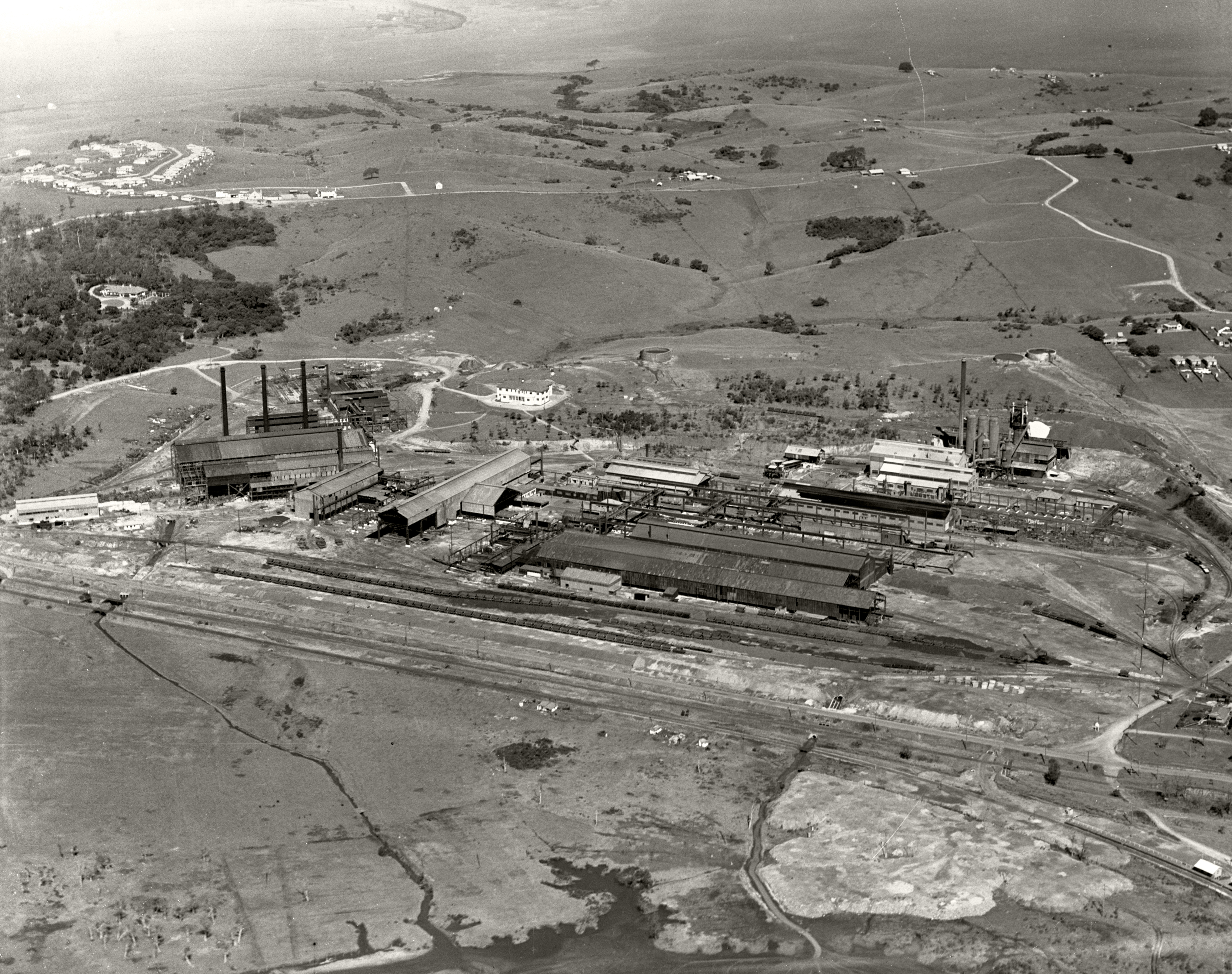 The Royal Australian Historical Society is heading to Wollongong to stage its annual conference on Saturday 22nd and Sunday 23rd October at Centro CBD – 28 Stewart St. Wollongong NSW. The digital revolution is impacting how we research and produce history. There is also an increasing appetite for local and community history that connects people to their identity and place. History plays a critical role in advocacy campaigns to ensure that these places remain part of our cultural landscape in this era of widespread urban development. How historical societies engage with these developments is critical to ensure their continued relevancy in 21st century Australia. The RAHS invites you to join us to explore these topics, learn skills that will support your history projects and enjoy opportunities to network and share histories with RAHS members and friends. Attend an historical tour and our conference dinner on the Saturday evening. Conference details are on our website, which includes the full program and booking form: Go straight to the program and booking form here